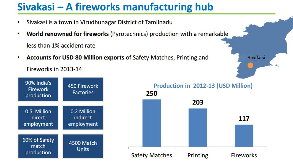 Sivakasi - Fireworks Hub of India